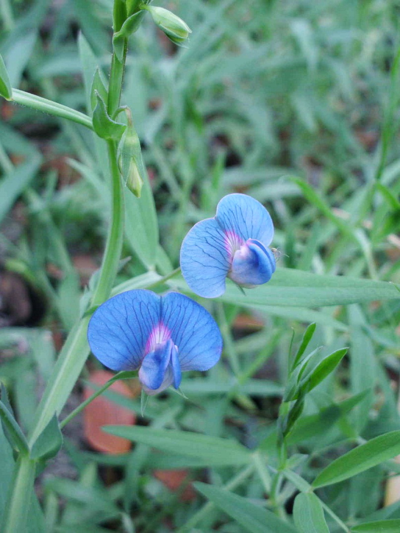 Lathyrus sativus flowers Bangladesh cropped